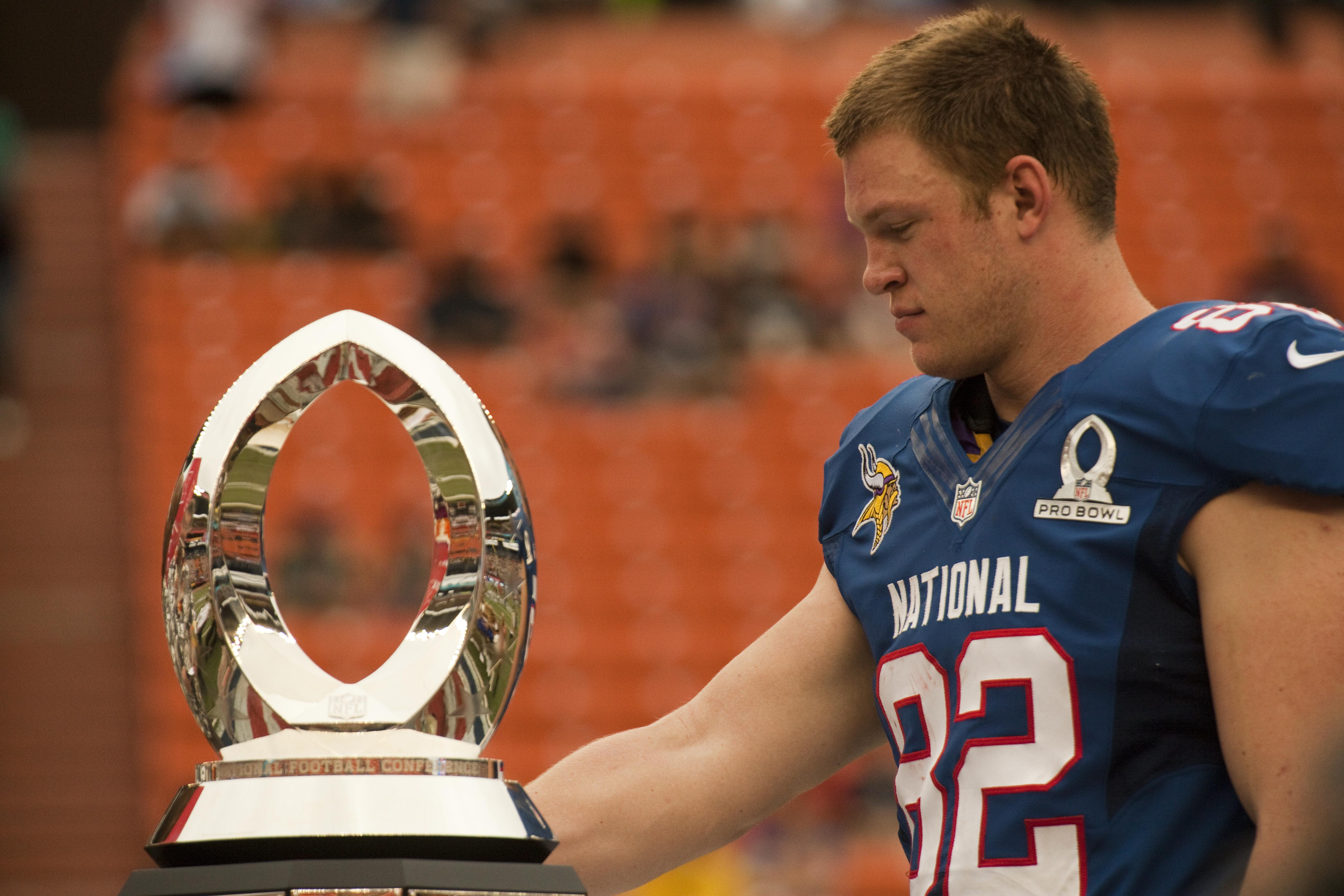 Minnesota Vikings tight end Kyle Rudolph eyes his 2013 Pro Bowl Most Valuable Player award that he received for his performance at Aloha Stadium, Jan. 27.